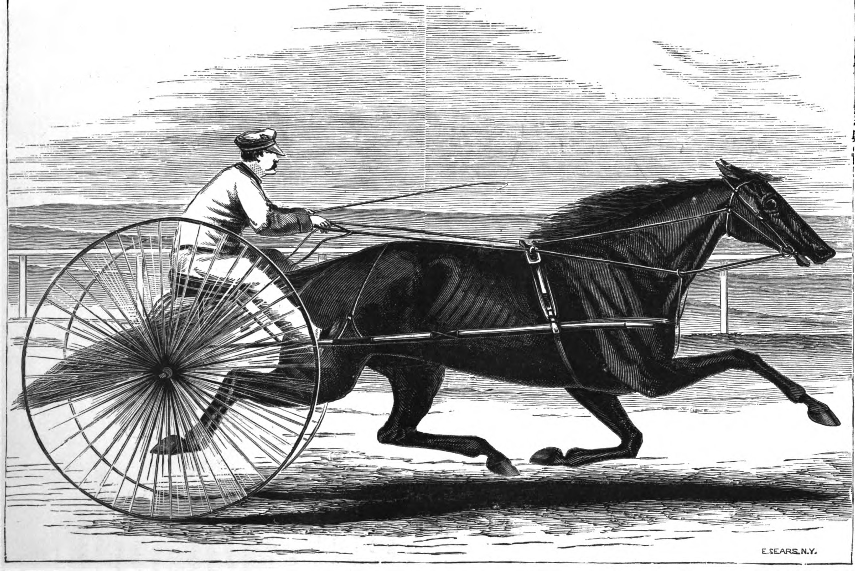 Goldsmith Maid (horse) pulling a sulky.